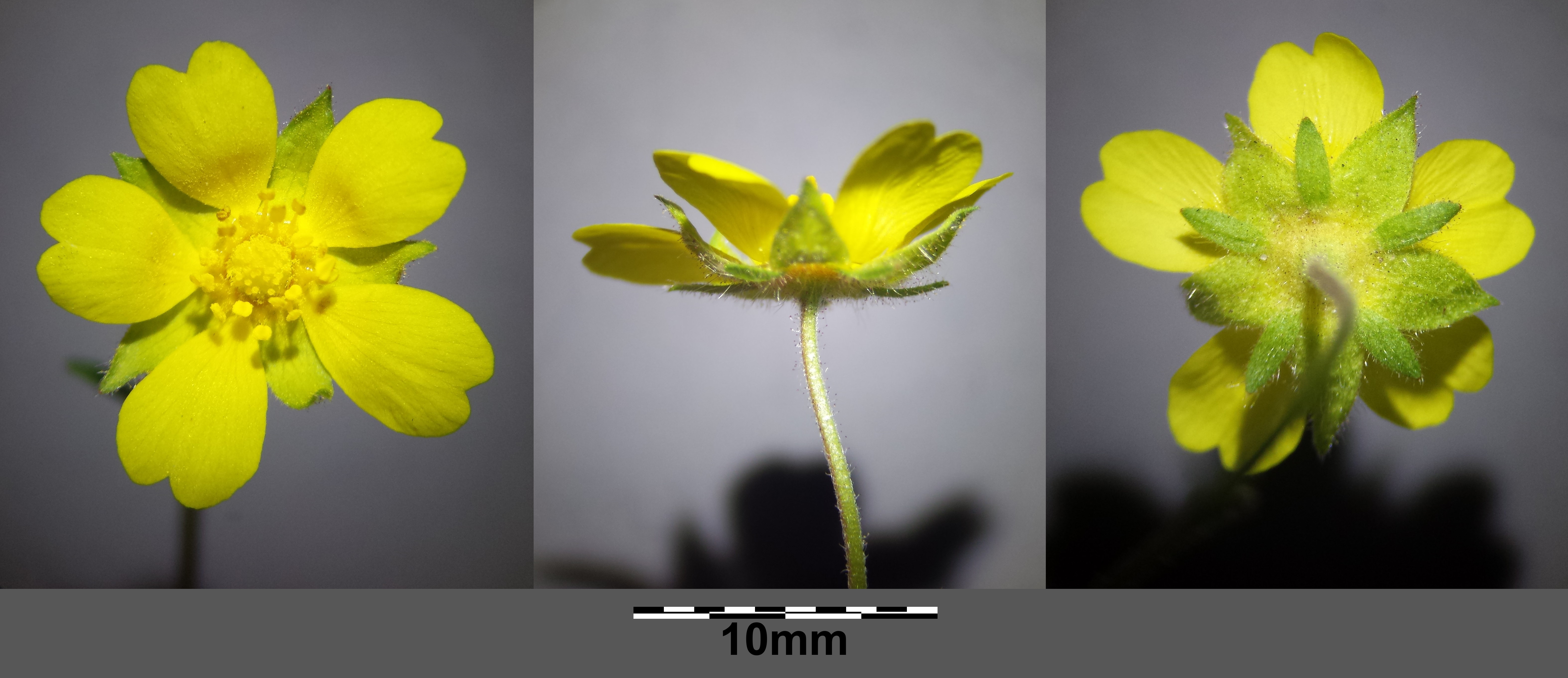 Flower Taxonym: Potentilla pusilla ss Fischer et al. EfÖLS 2008 ISBN 978-3-85474-187-9 Location: Tresdorf, district Korneuburg, Lower Austria - ca. 180 m a.s.l. Habitat: slope